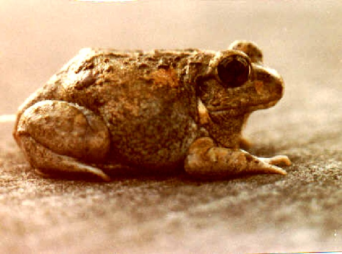 Tomopterna breviceps